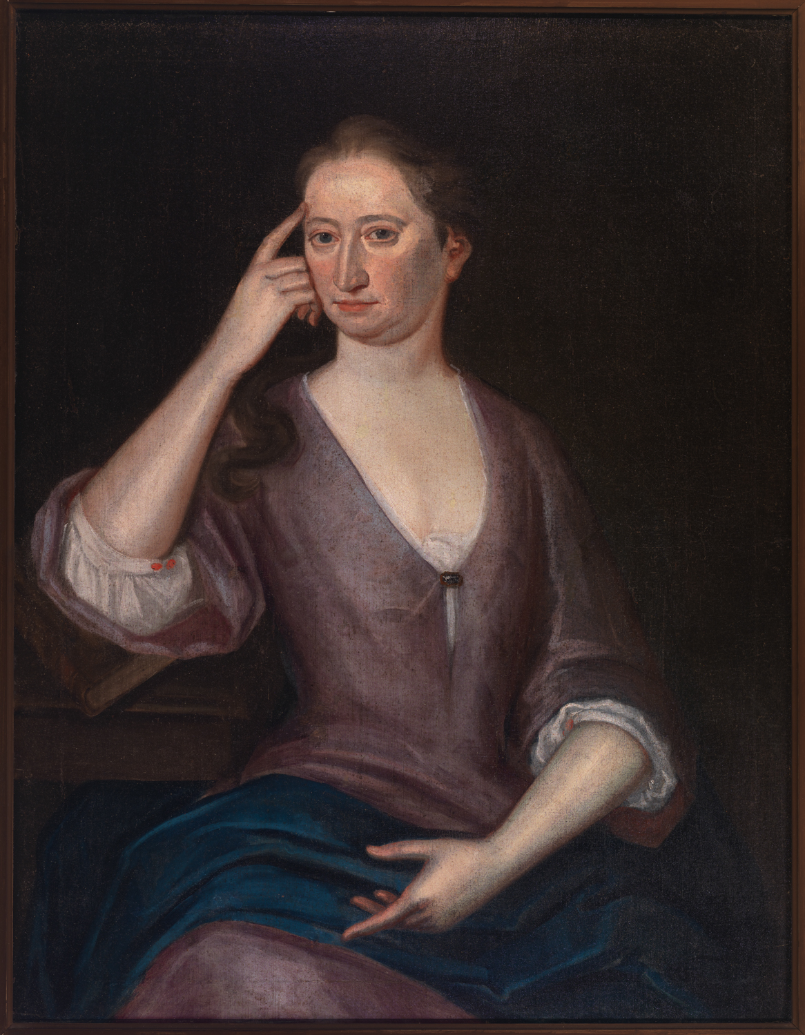 Dimensions: . 34 x 26 in. (86.36 x 66.04 cm.)